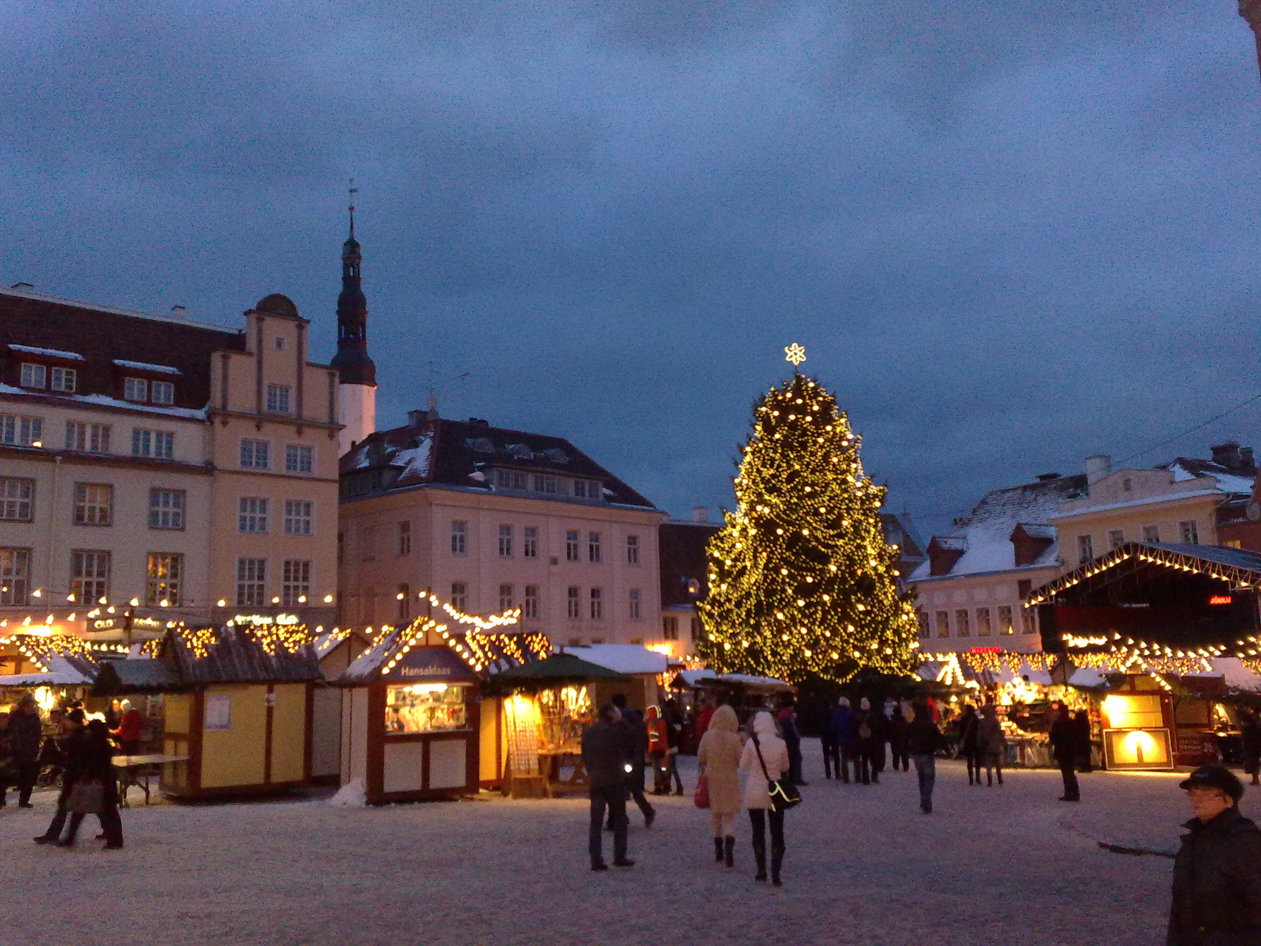 A Christmas tree and a Christmas market on Town Hall Square (Raekoja plats), Tallinn, Estonia.